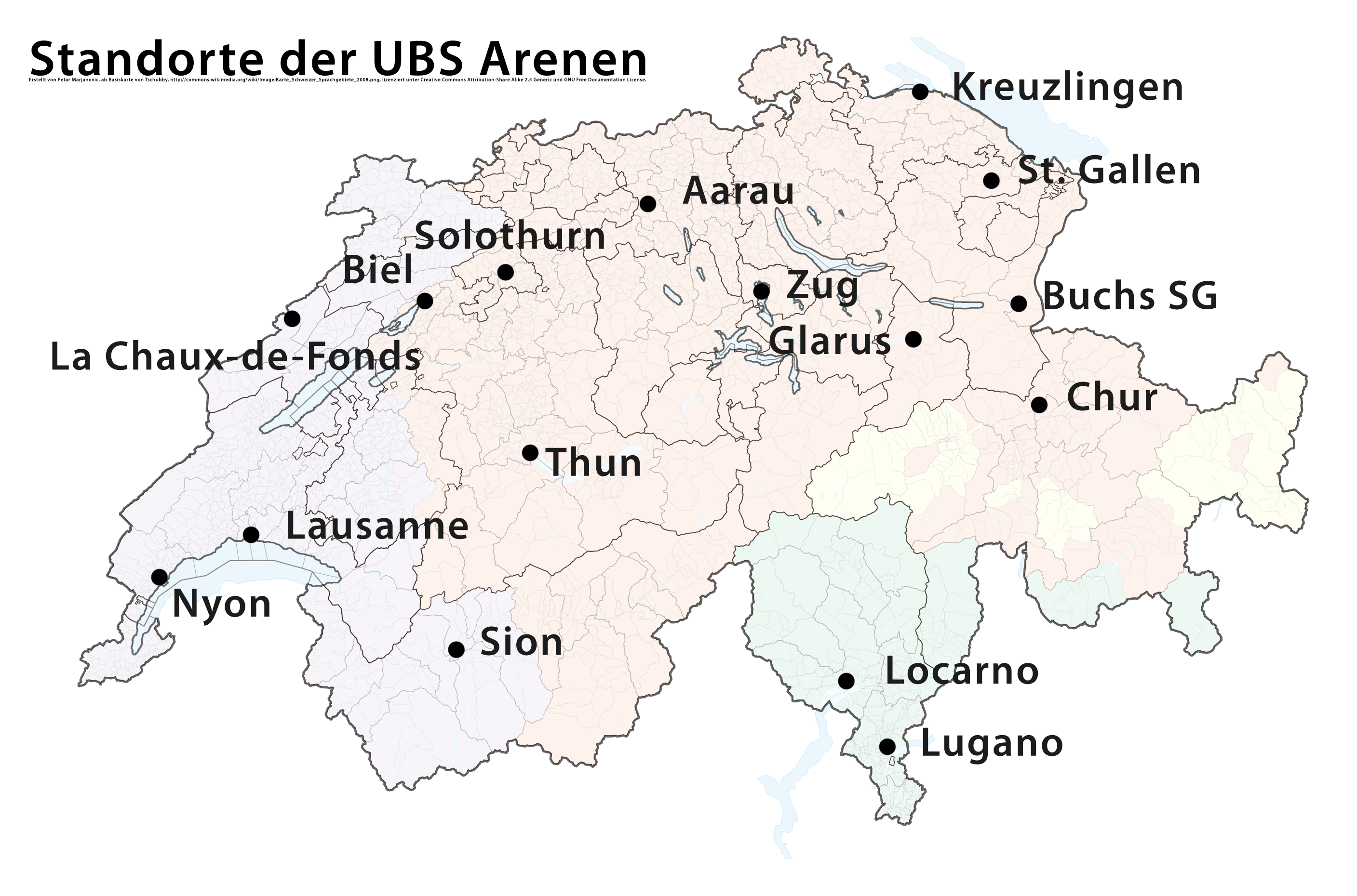 map with all UBS Arenas